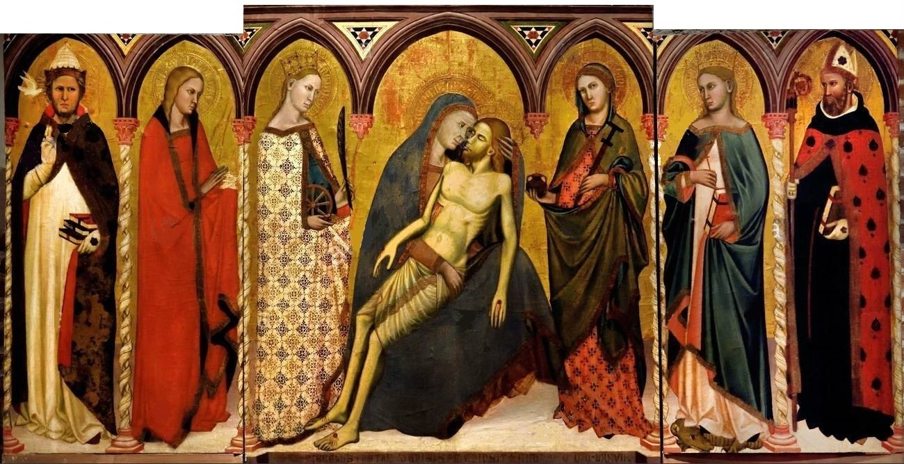 Cecco di Pietro, Pieta and six saints, altarpiece, 1377, Pisa, Museum San Matteo